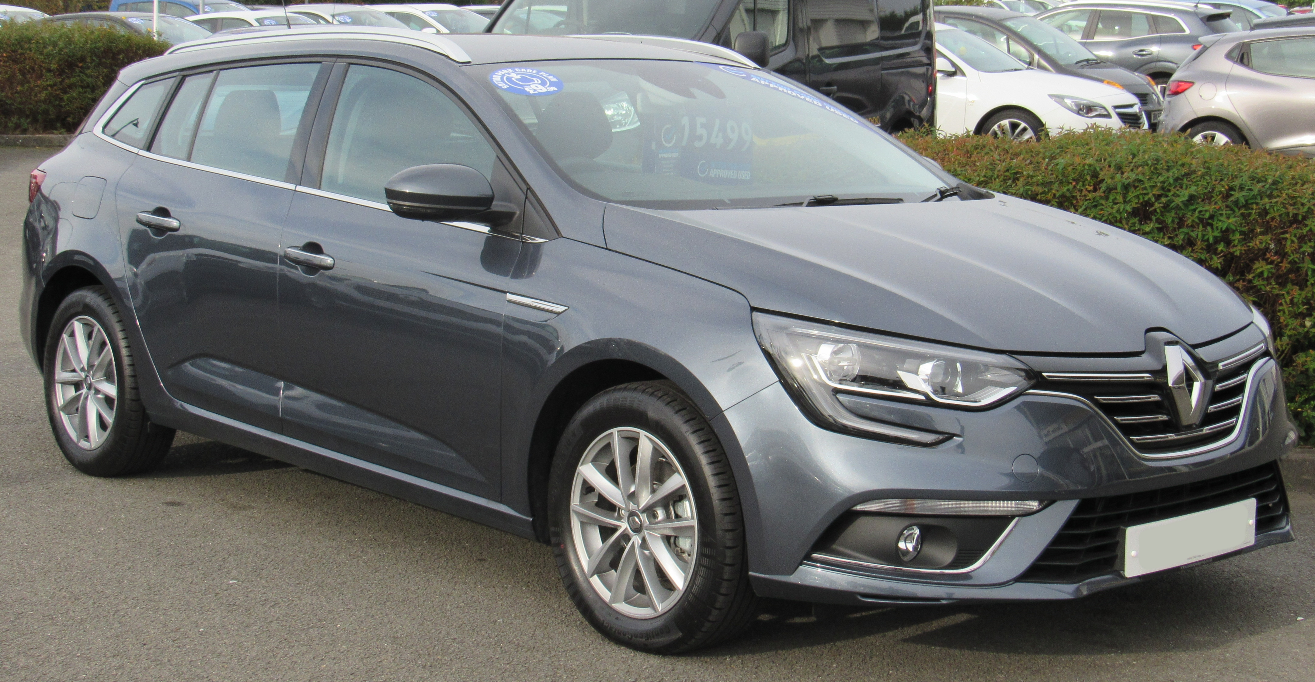 2017 Renault Megane Dynamique DCI Estate 1.5 Front Taken in Leamington Spa